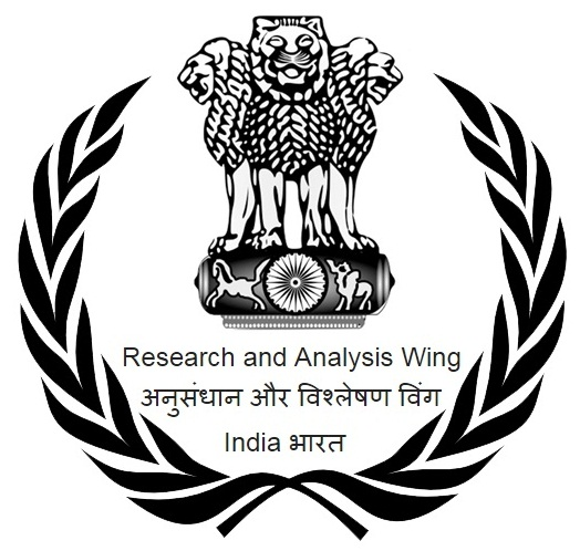 Research and Analysis Wing, Ministry of Home Affairs, Governmenrt of India